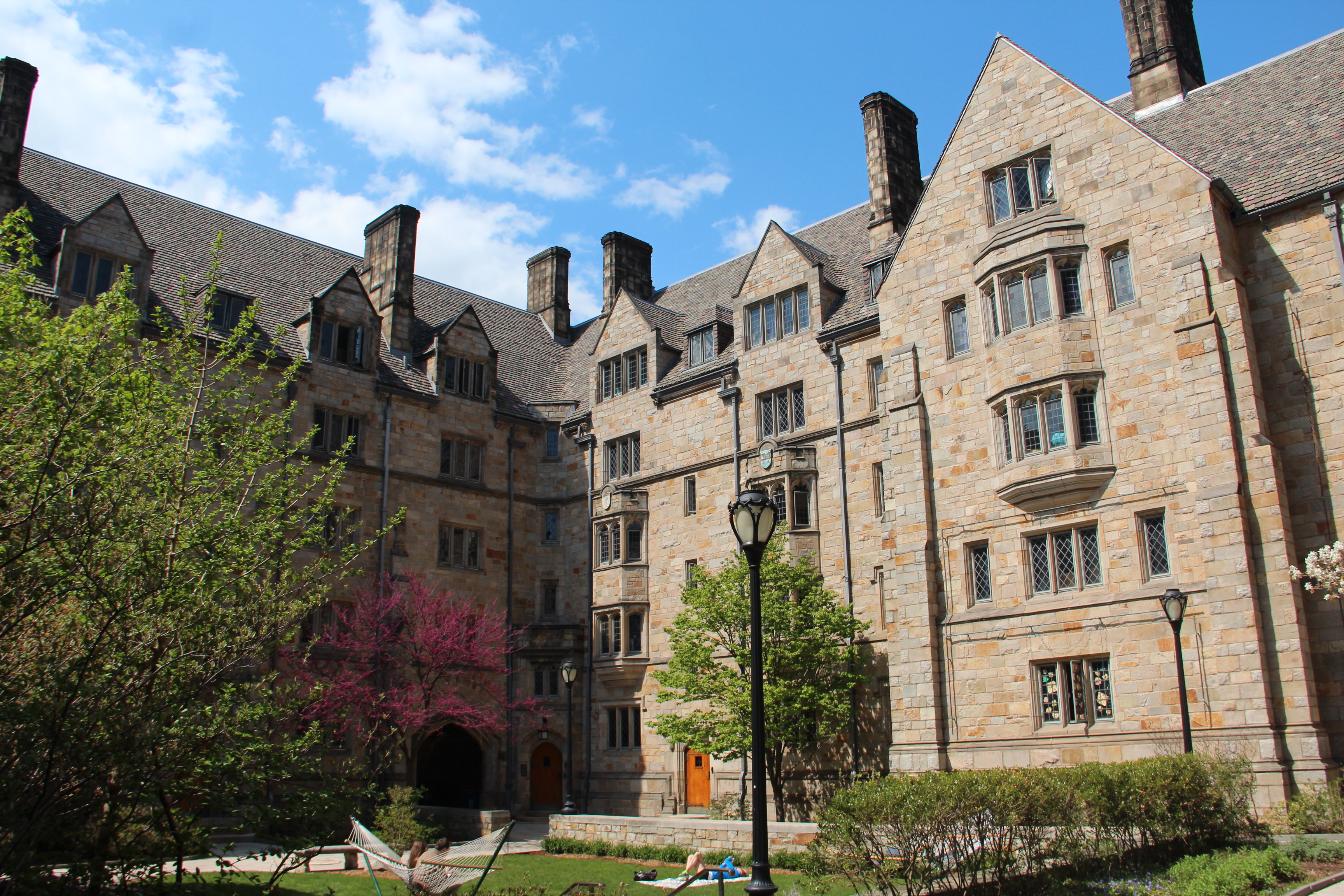 Killingworth Courtyard with flowering trees in bloom, the east courtyard of Saybrook College, in the Memorial Quadrangle, Yale University, New Haven, CT